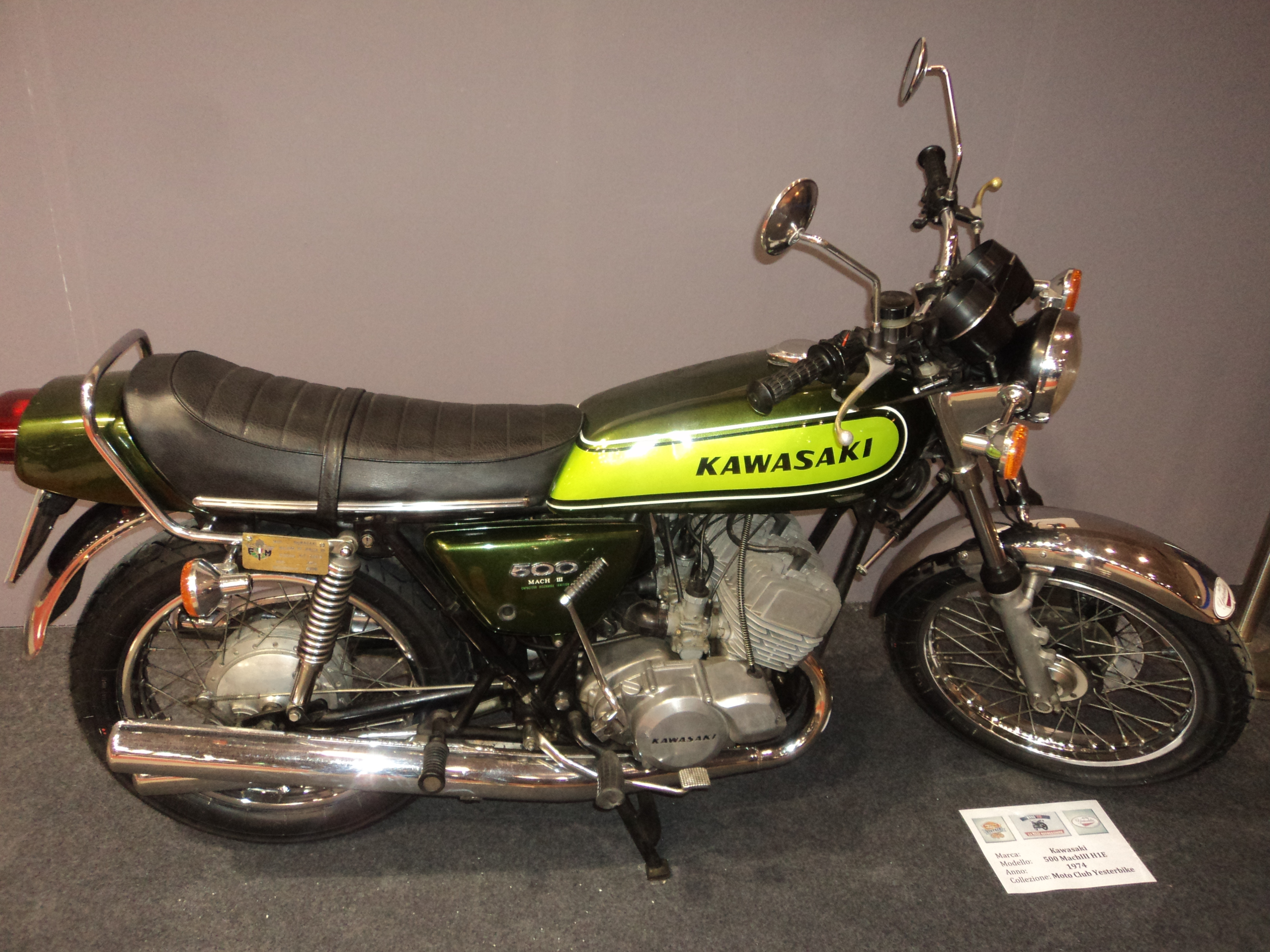 Kawasaki racing motorcycles@Motodays 2017